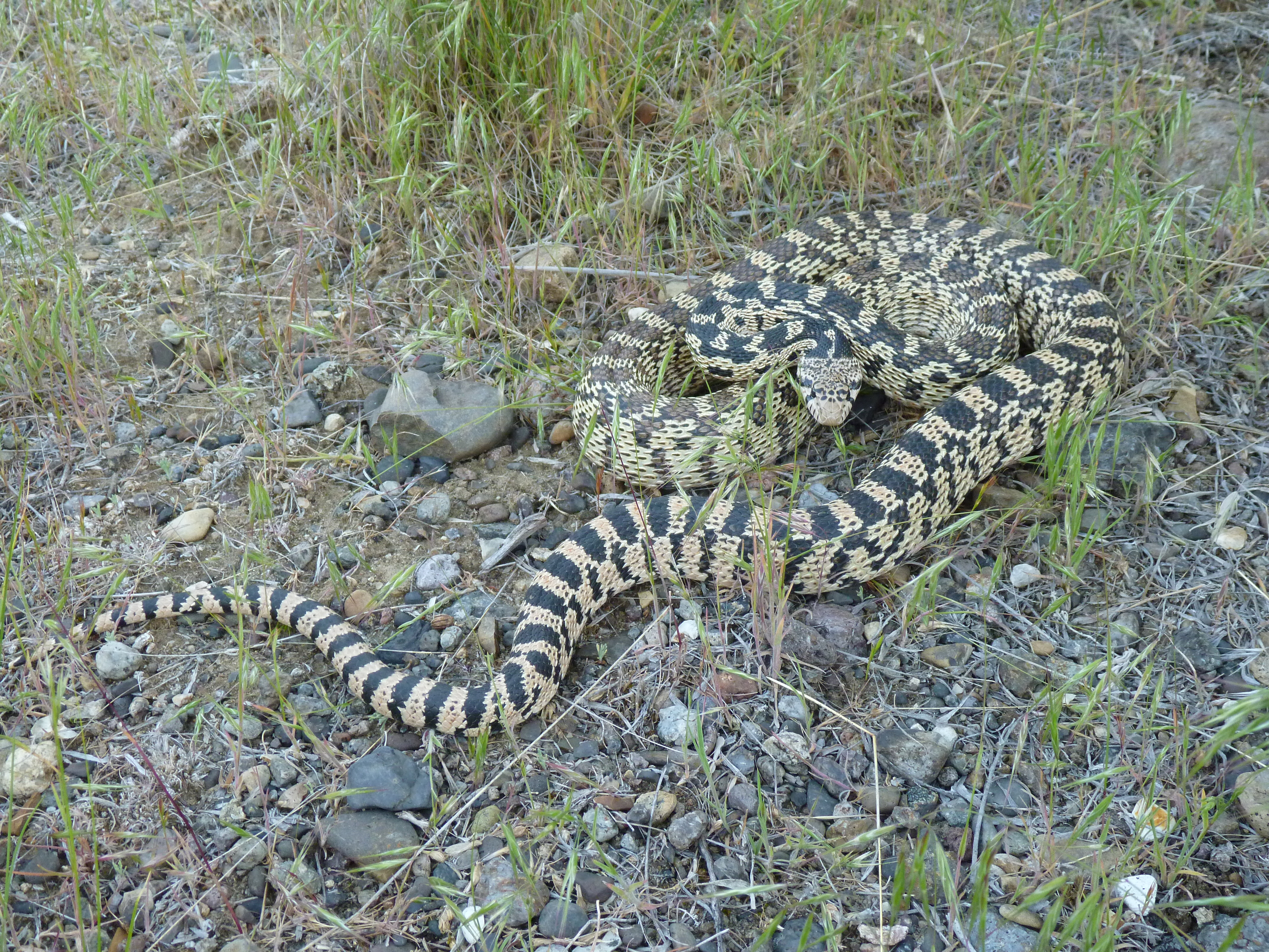 Succor Creek, Idaho